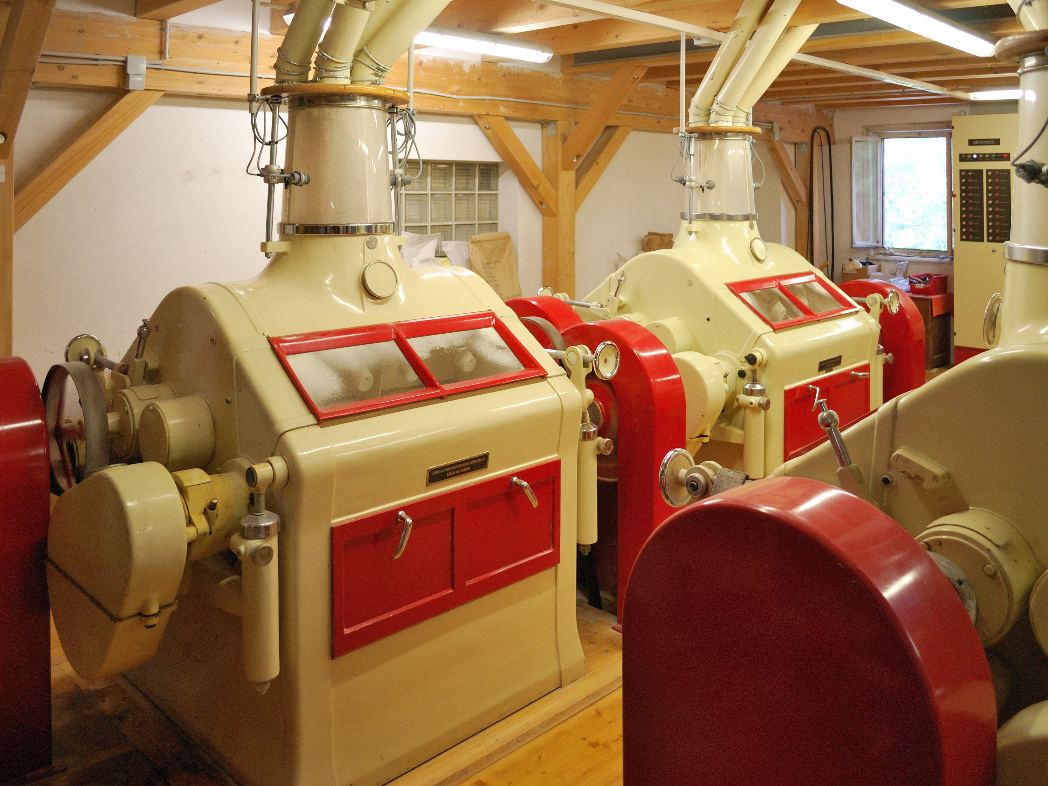 Roller mills in the Zechlesmühle in Ditzingen in Baden-Württemberg in Germany.